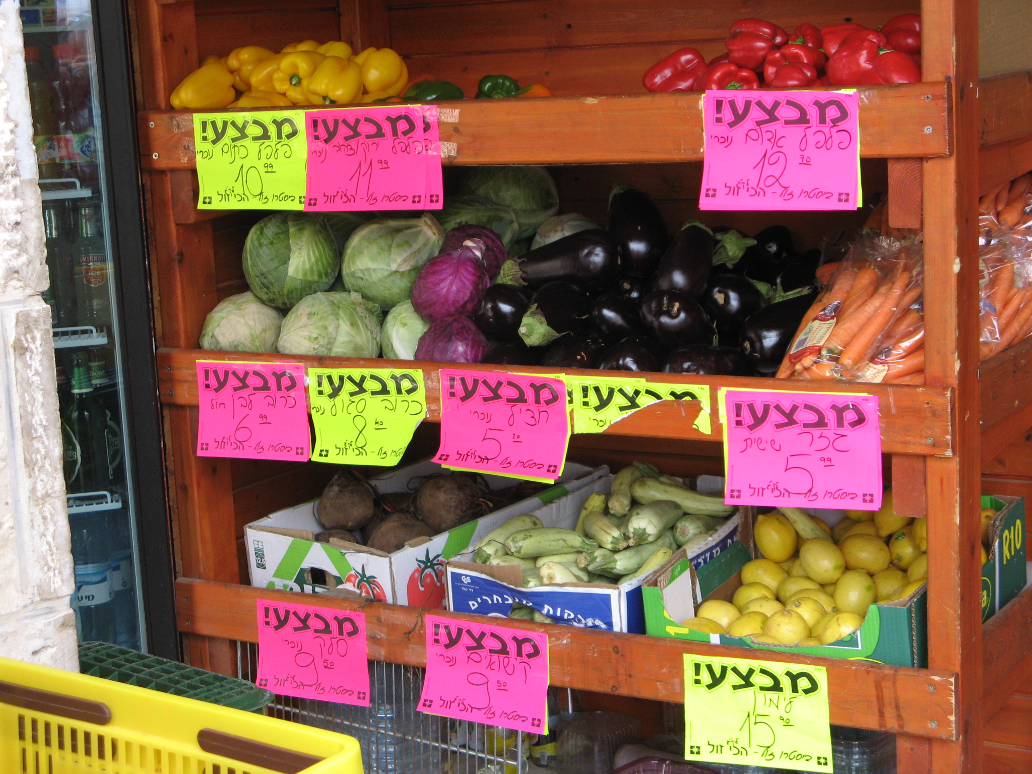 Different types of produce at a Shmita store